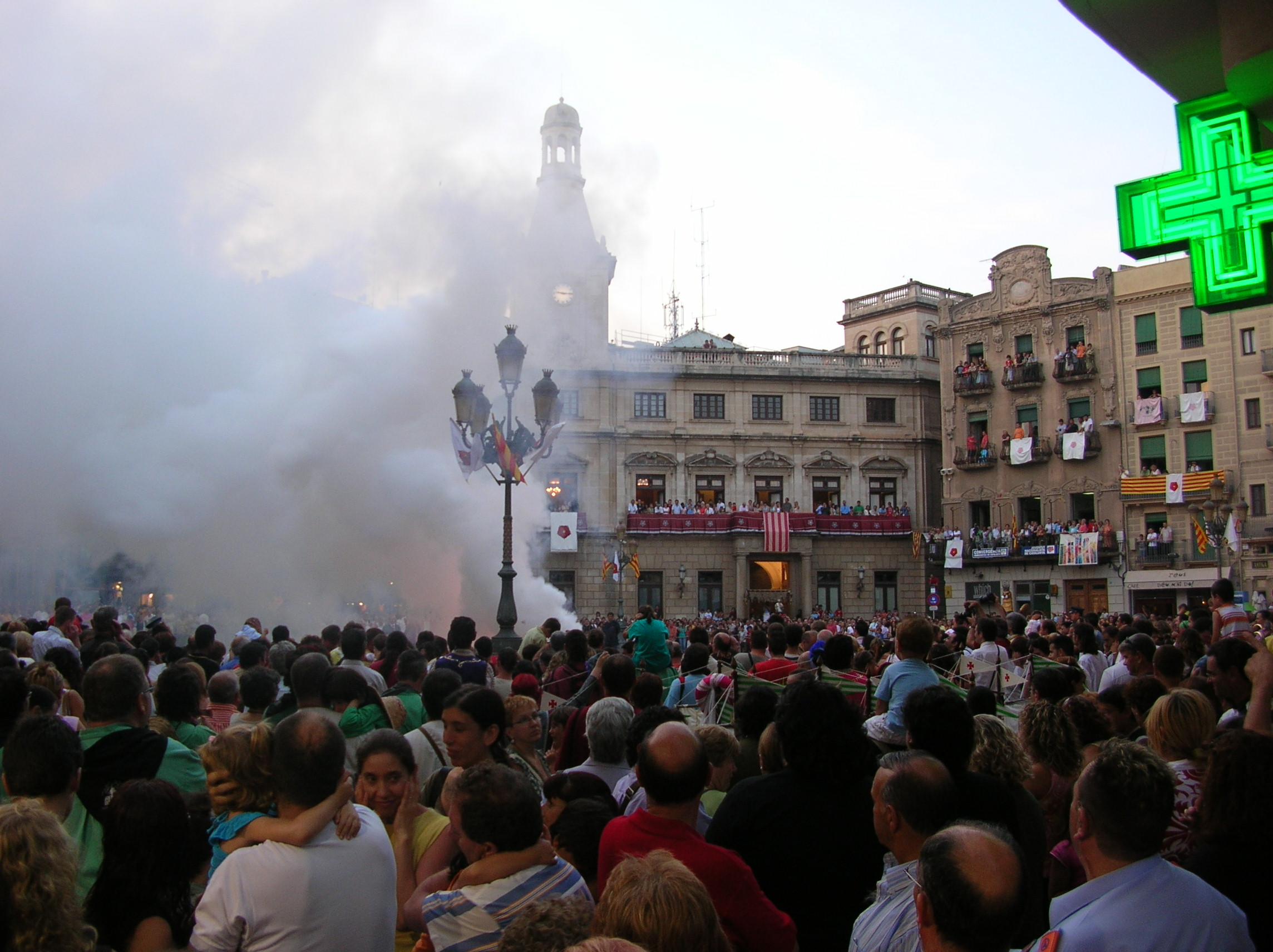 The "Tronada" of Reus, Catalonia.